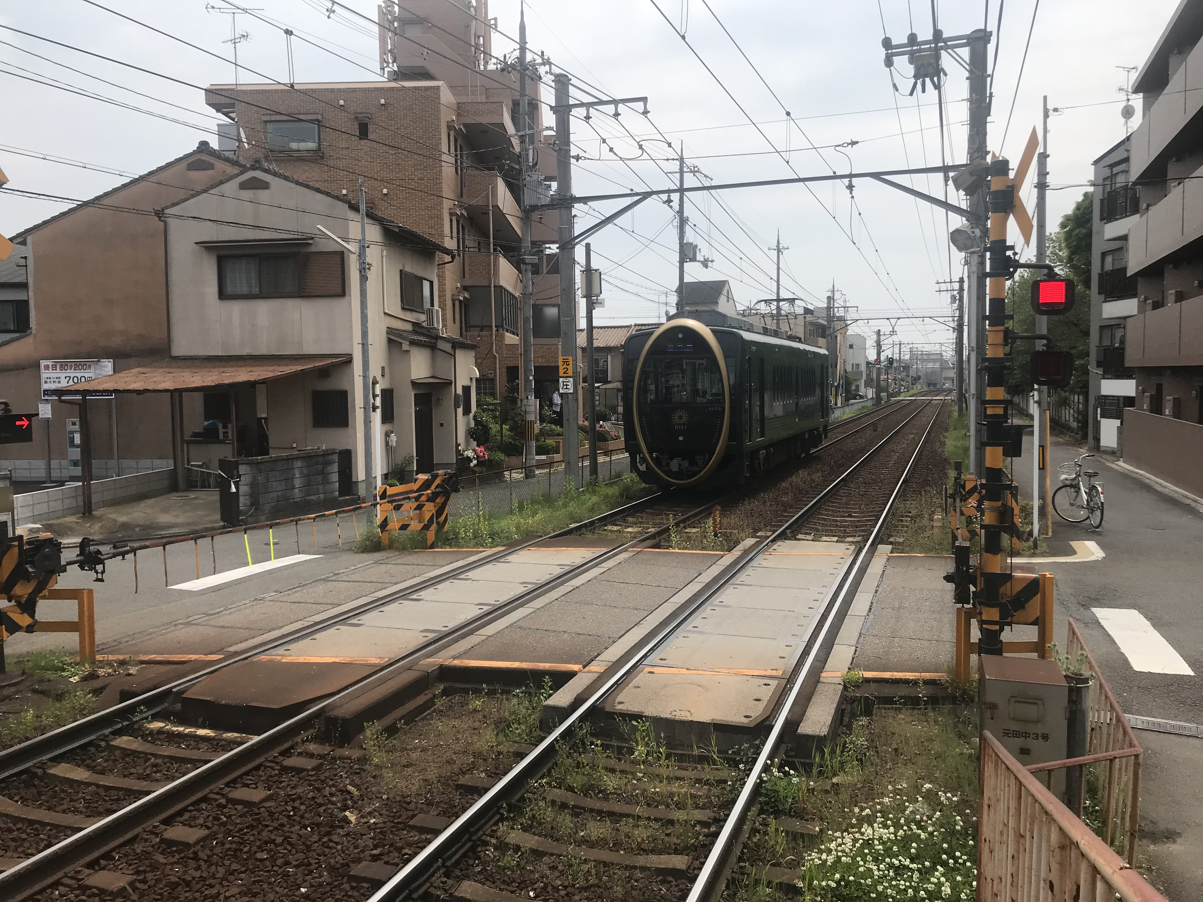 Chayama station overview viewing from the south